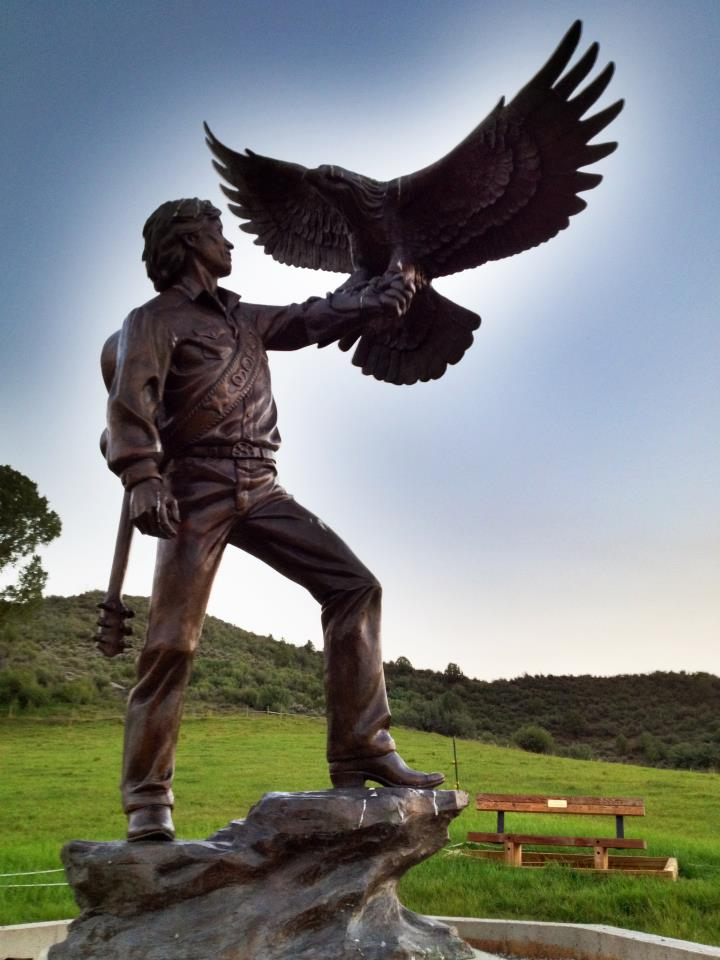 This is a photo of the John Denver 'Spirit' Statue on the Windstar land in Snowmass, Colorado.